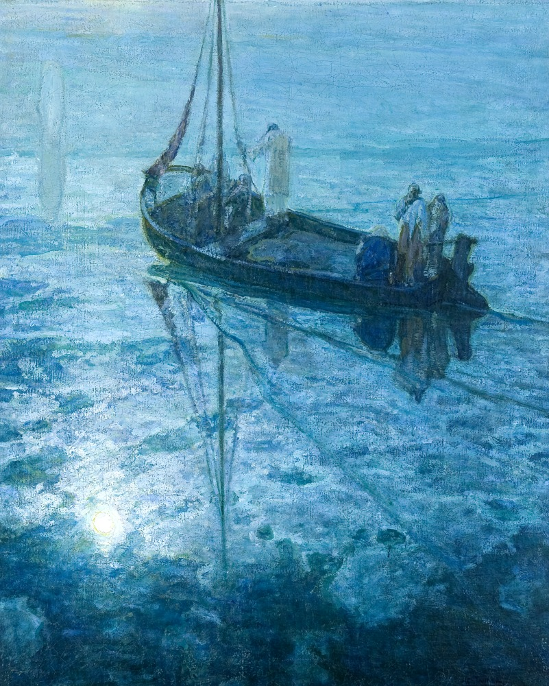 Henry Ossawa Tanner - The Disciples See Christ Walking on the Water, c. 1907. Oil on canvas, 51.5 x 42 in. Des Moines Art Center